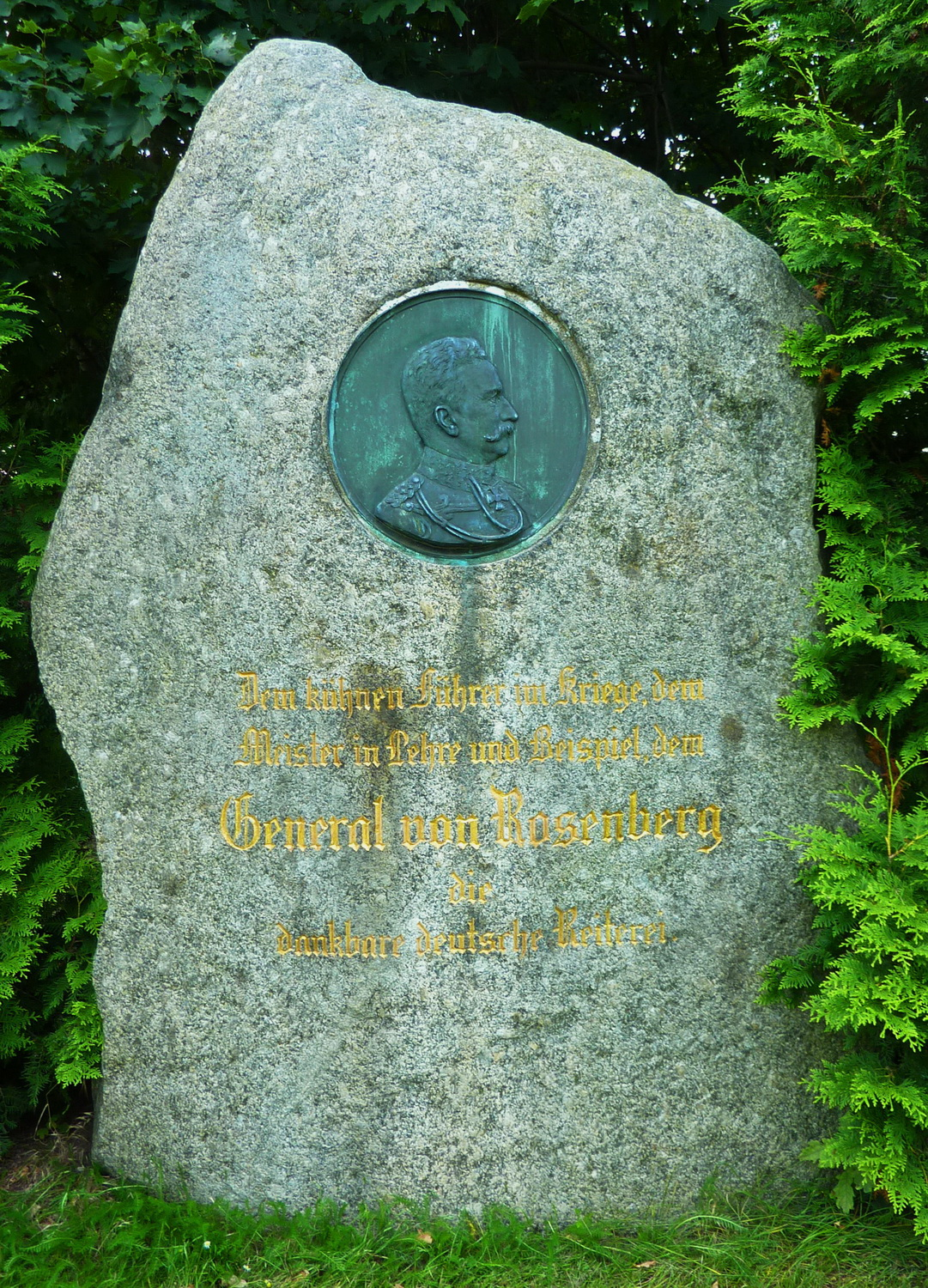 Denkmal General Rosenberg, Langenhagen, Pferderennbahn